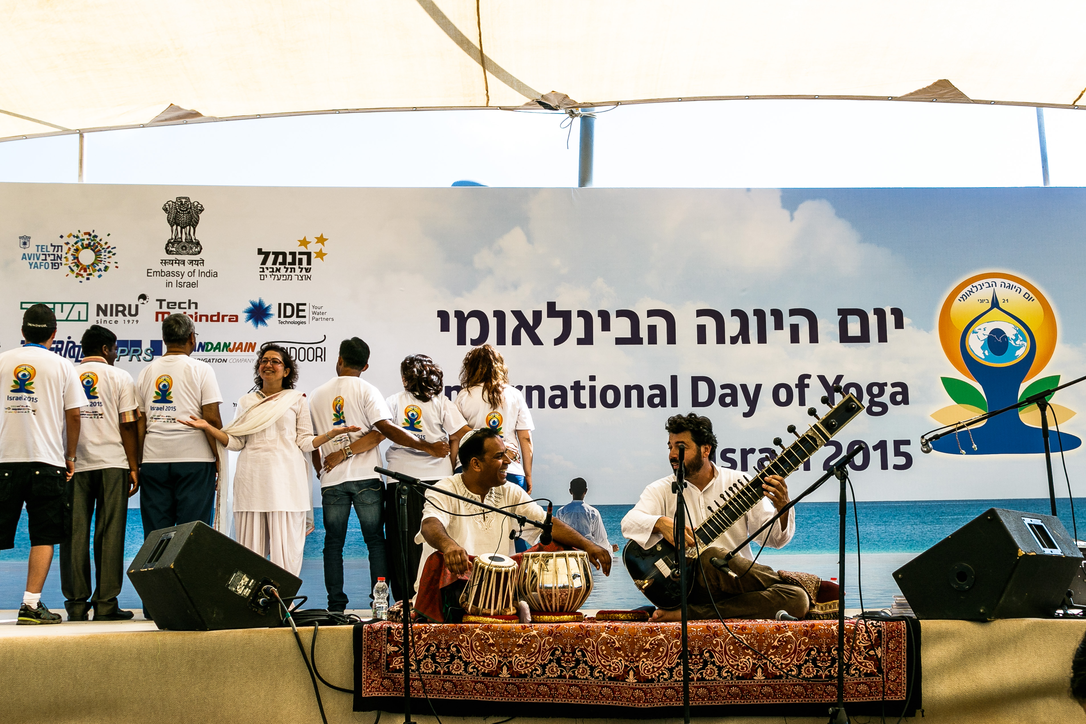 International day of Yoga 2015, Sports in Israel